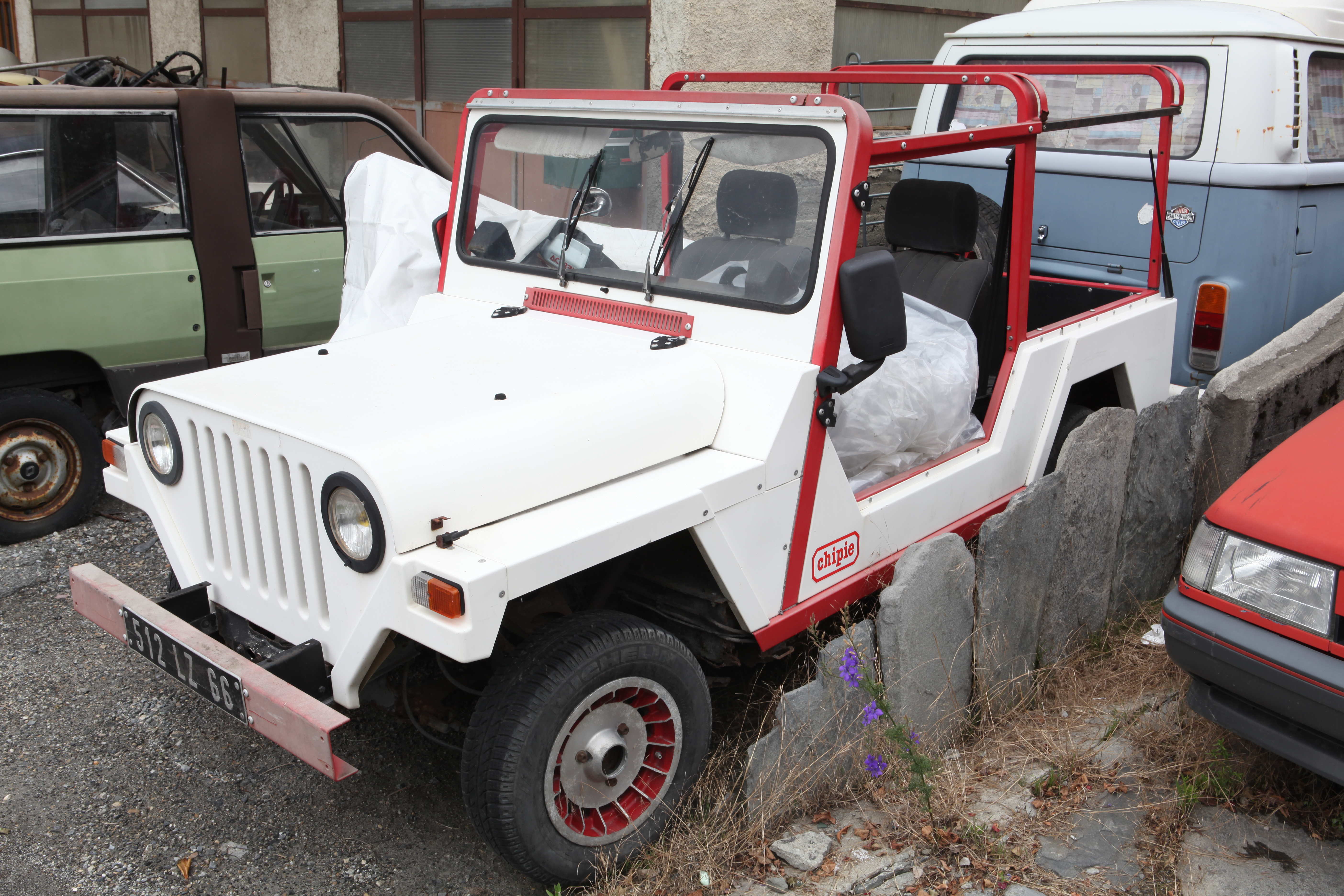 Chipie build by E3D french small company - Roissy en Brie (77) (1982 - 1986) with major elements of Renault R4L